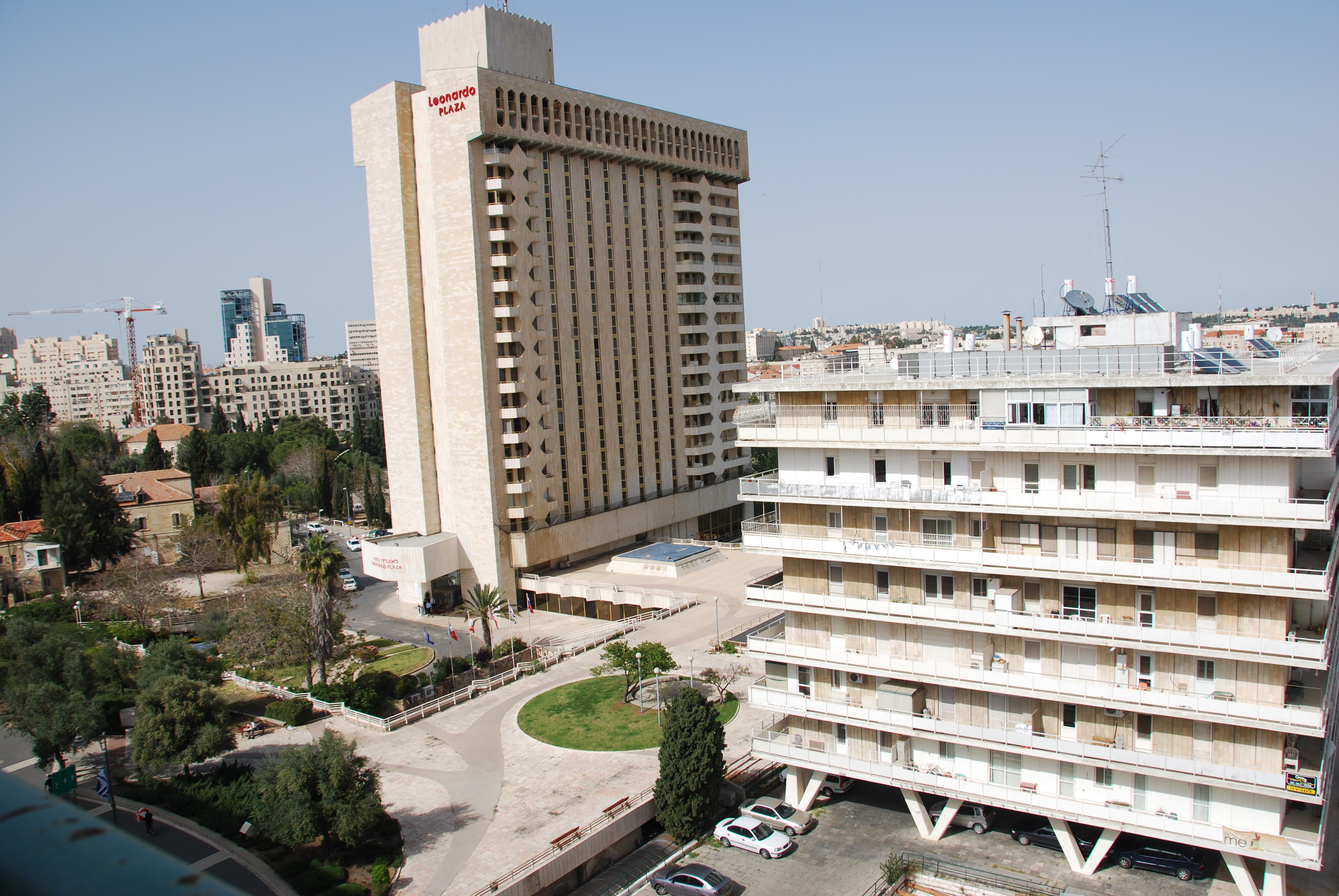 leonardo plaza hotel in rehavia, jerusalem